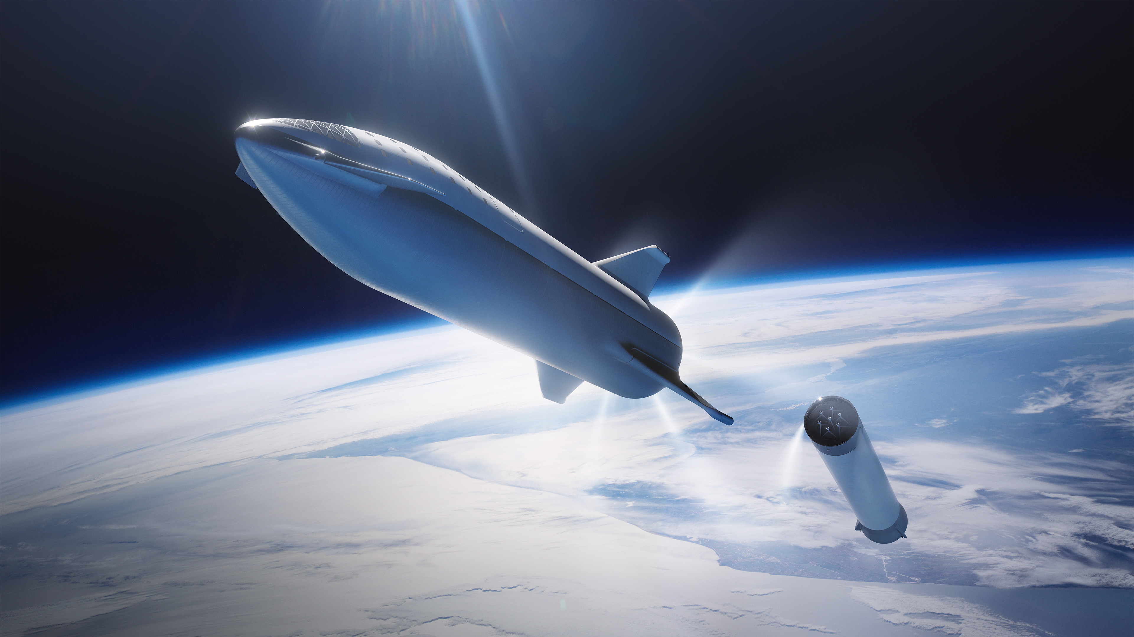 The 2018 version of the Big Falcon Rocket at stage separation: Starship (foreground) and Super Heavy (background)